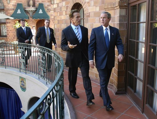 President George W. Bush meets with California Governor-Elect Arnold Schwarzenegger at the President's hotel in Riverside, Calif., Thursday, Oct. 16, 2003. White House photo by Eric Draper